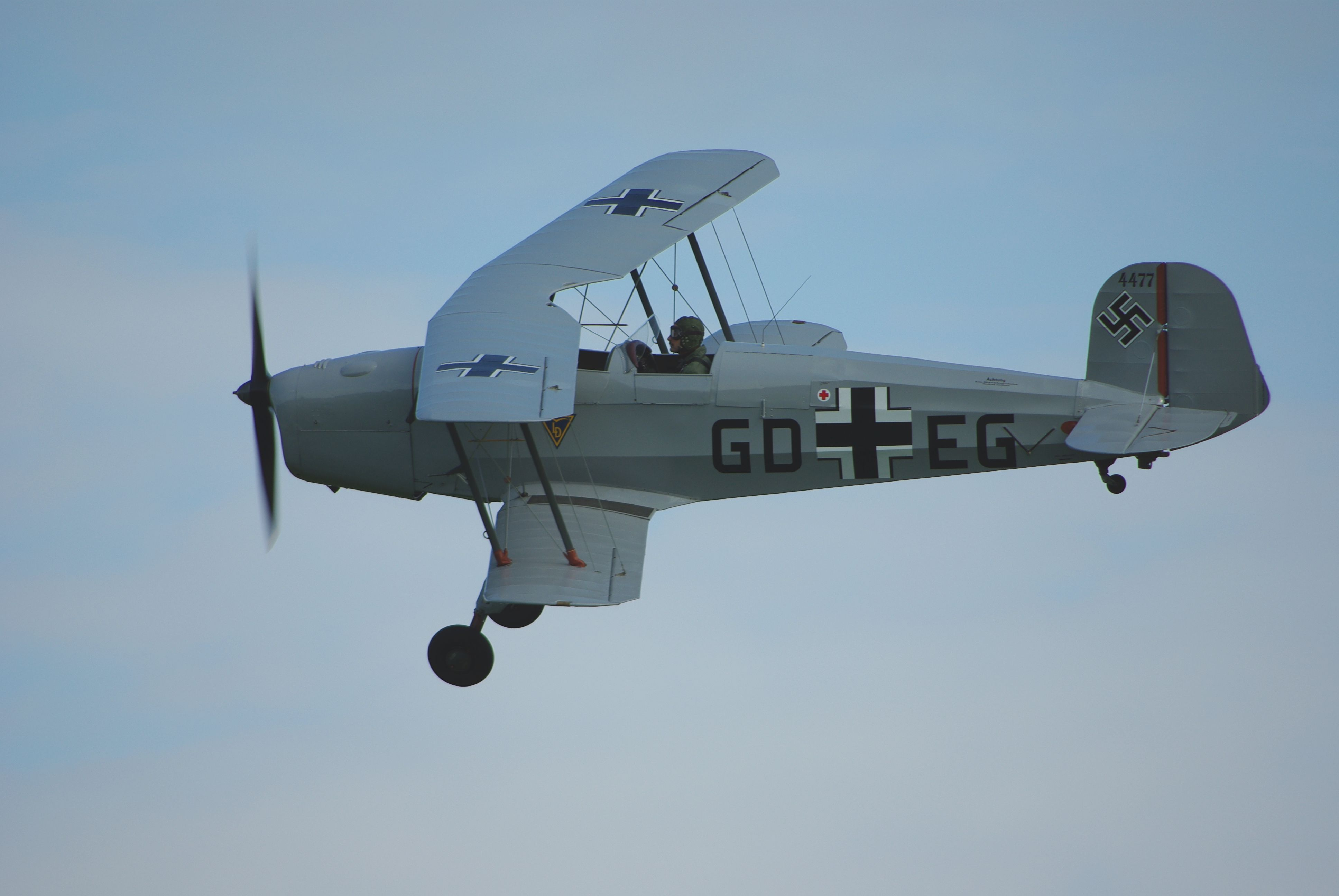 Bucker Jungmann (CASA 1-131) G-RETA at the 2008 Shuttleworth Pageant, 7 September 2008.